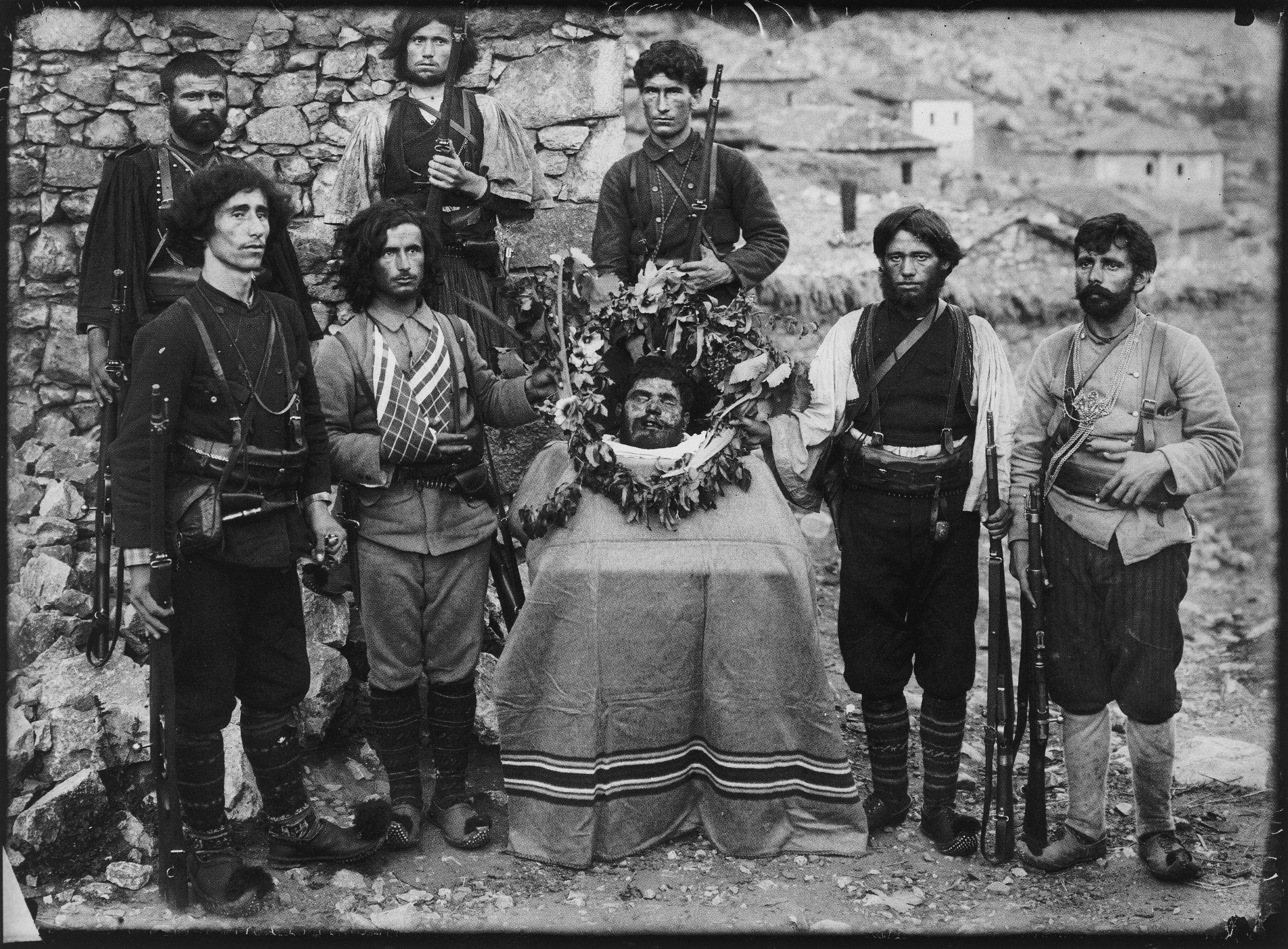 IMARO band of Atanas Karshakov in the village of Dambeni (today Dendrohori, Greece) with the severed head of Karshakov.